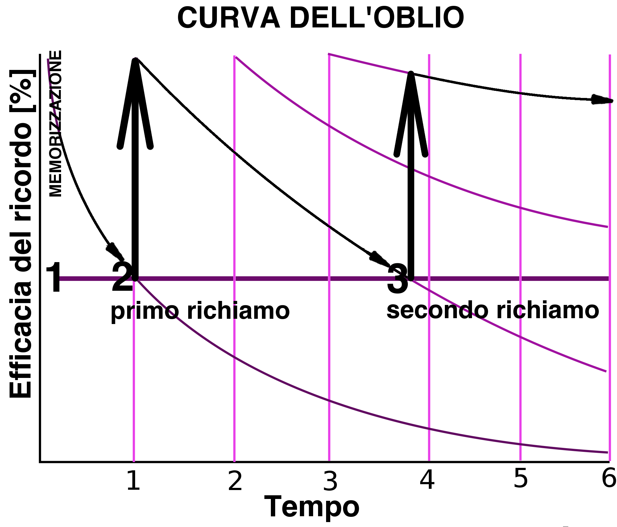 Forgetting curve, italian captions - with Spaced Repetition System arrows to indicate effect of repetitions